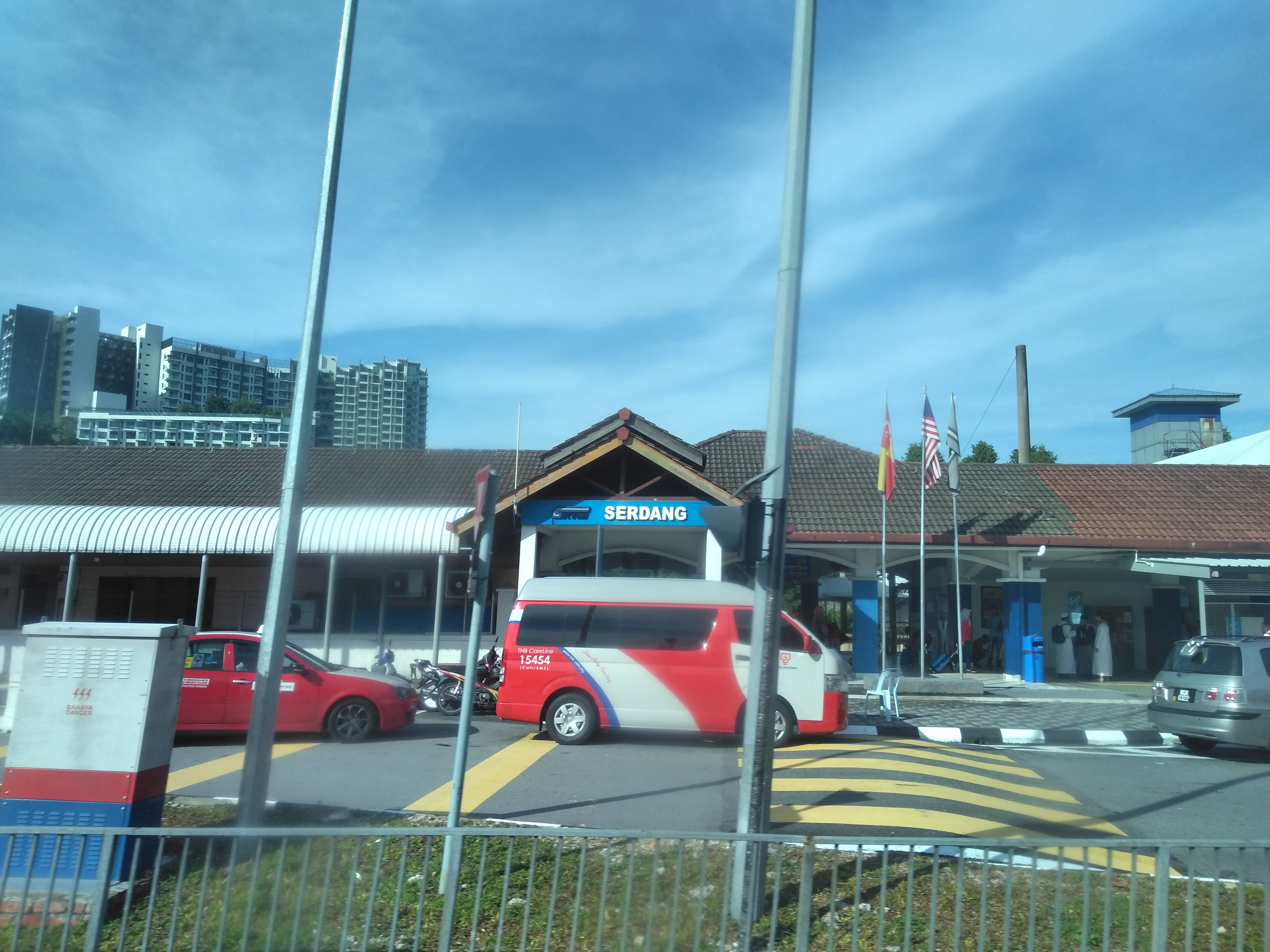 Serdang KTM Station